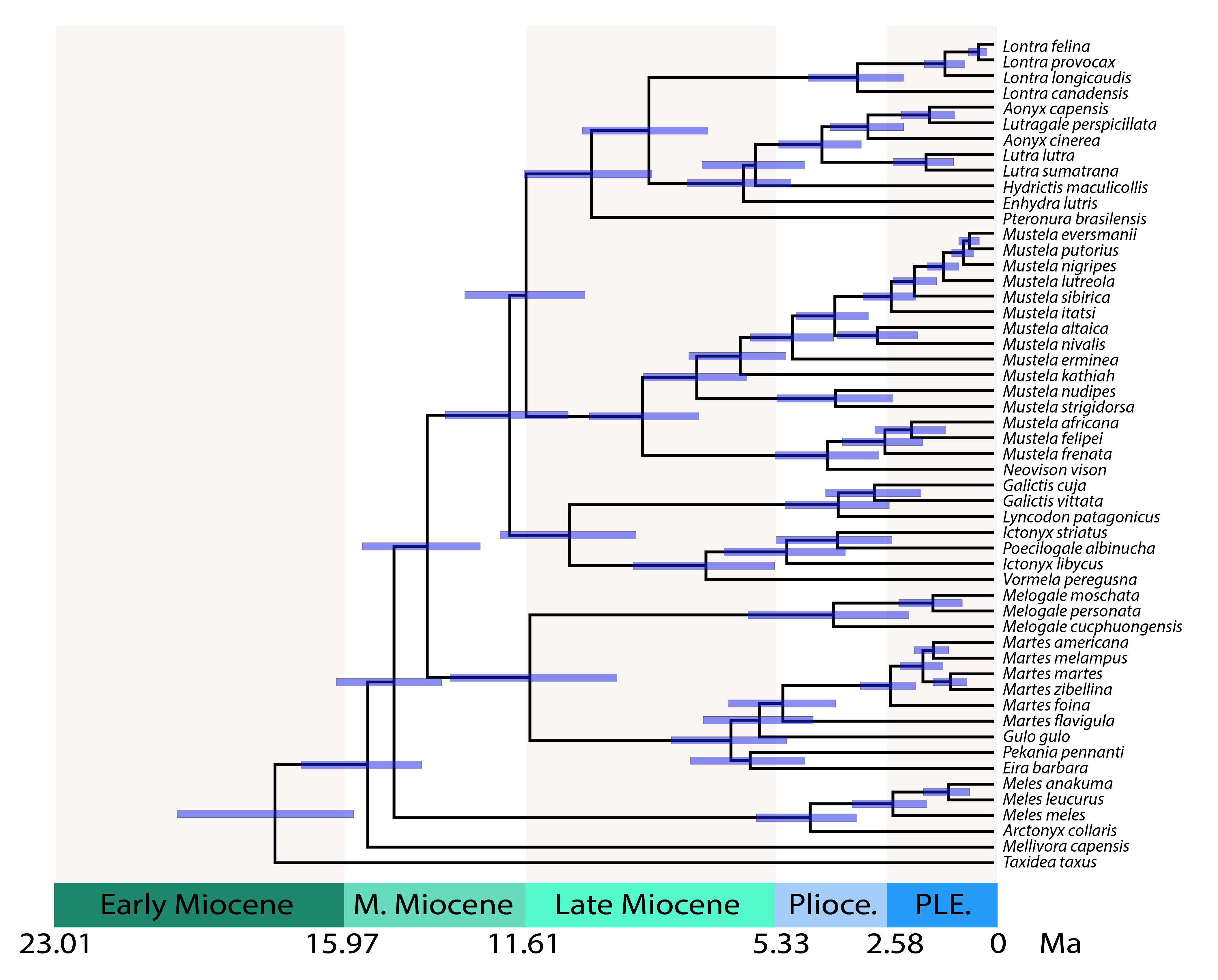 Time-calibrated tree of Mustelidae